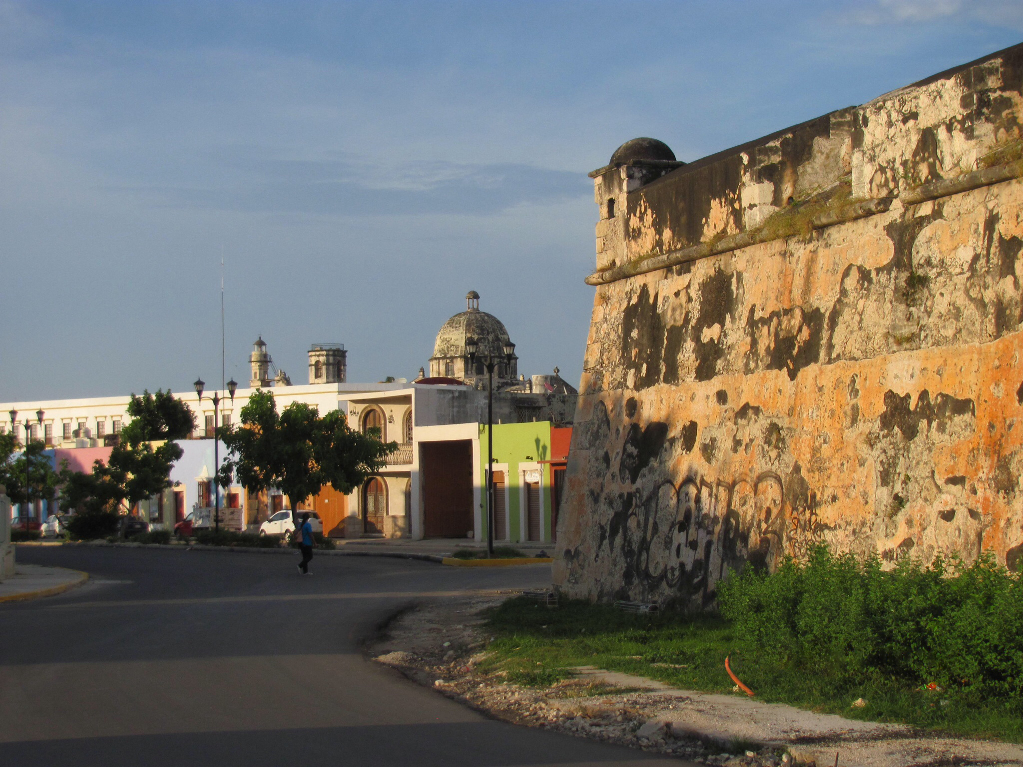 Campeche walls